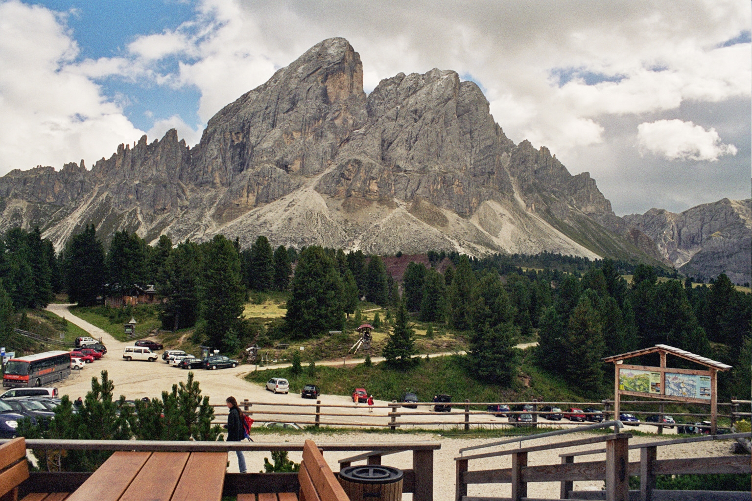 mountain pass in South Tyrol: Ju de Börz, Würzjoch, Passo delle Erbe ("pass of herbs"). Background: Sass di Pütia, Peitlerkofel.